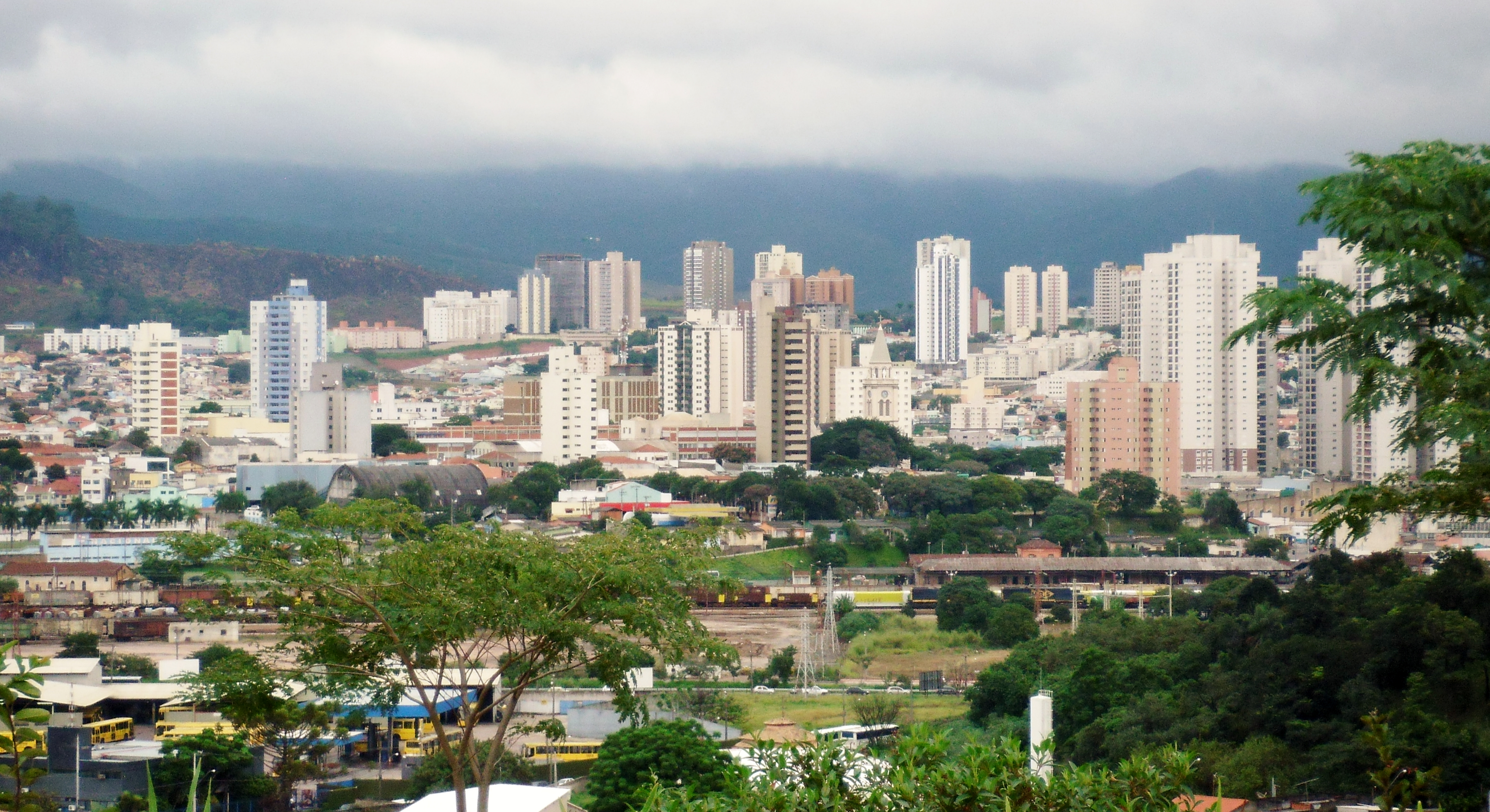 View of south zone of Jundiaí from Avenue Imigrantes Italianos.